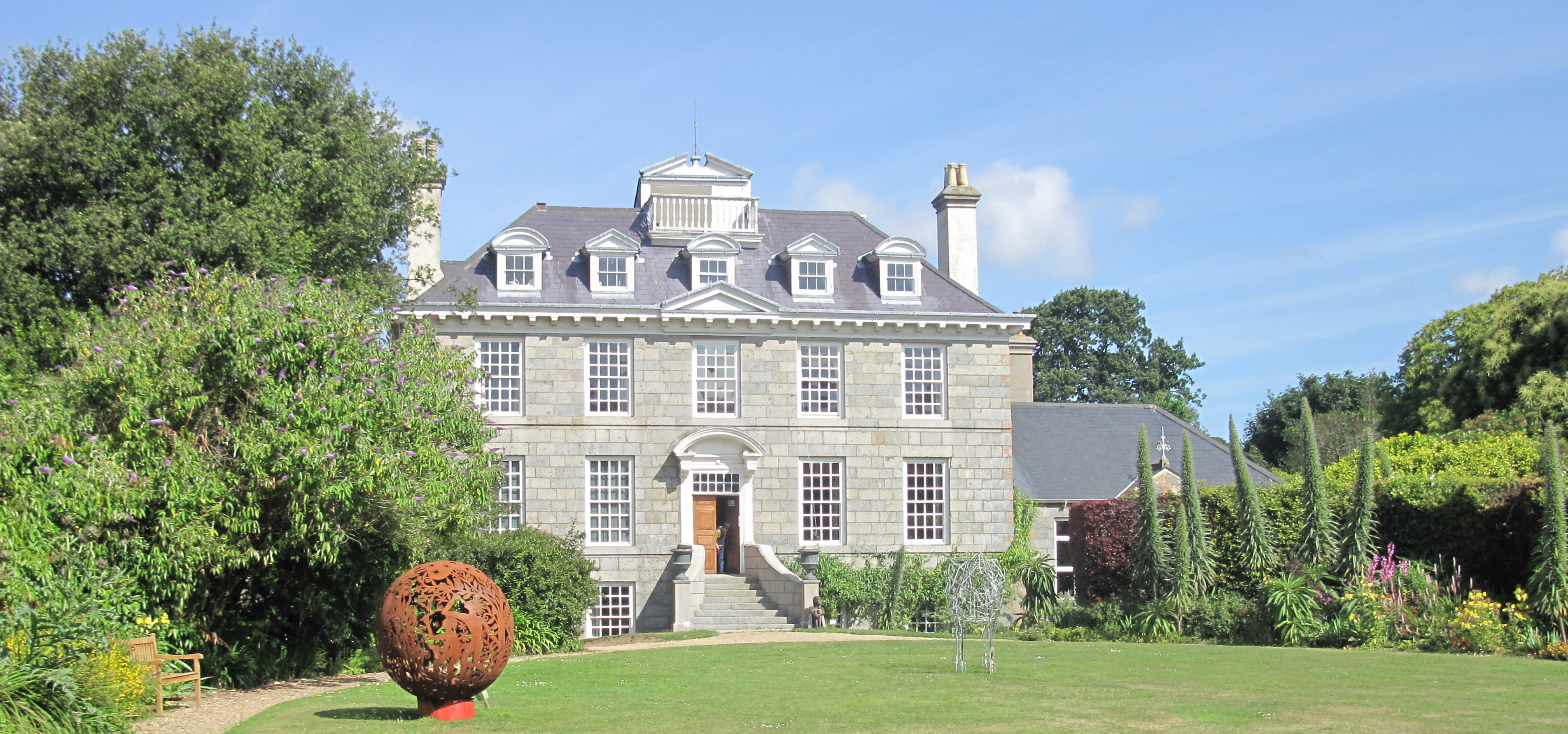 Guernsey, June-July 2011: Sausmarez Manor